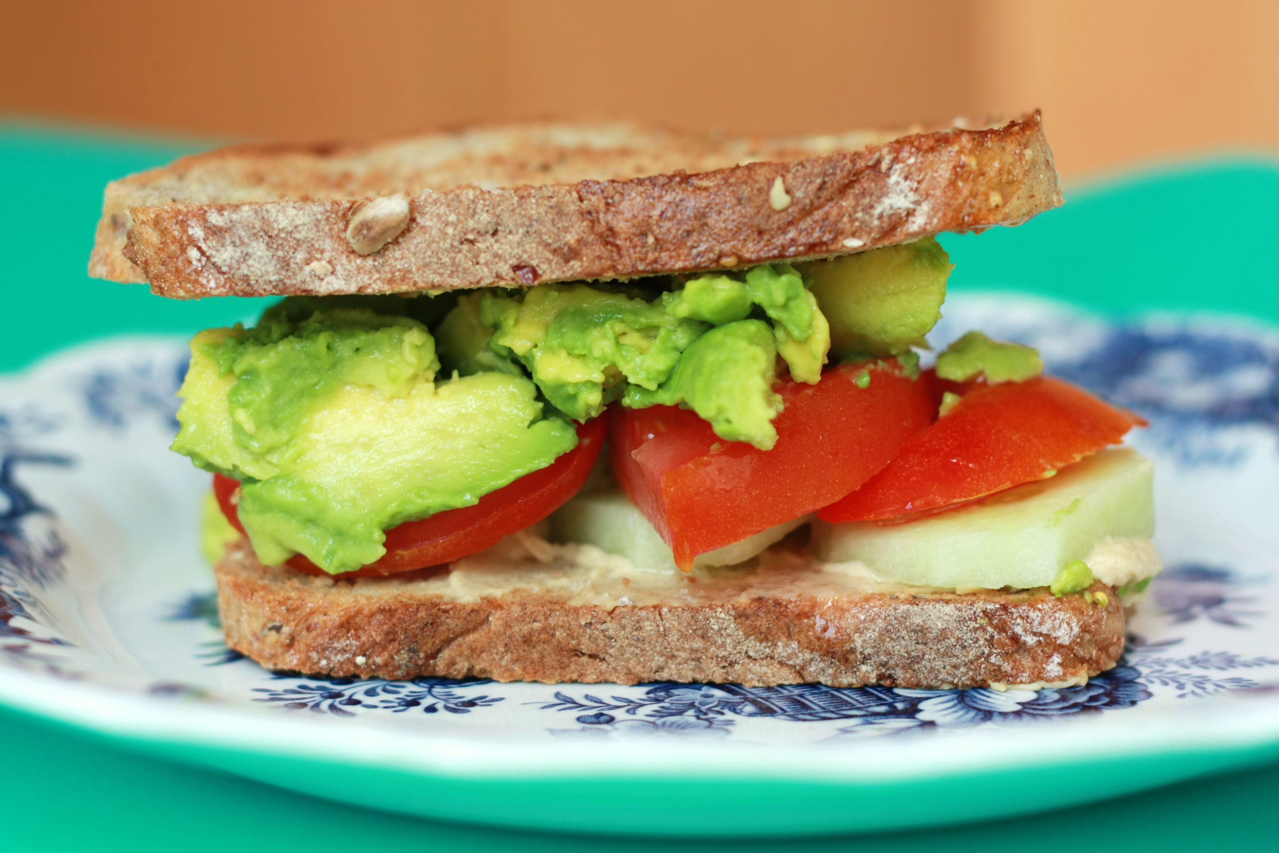 Toasted tomato, avocado, cucumber and hummus sandwich